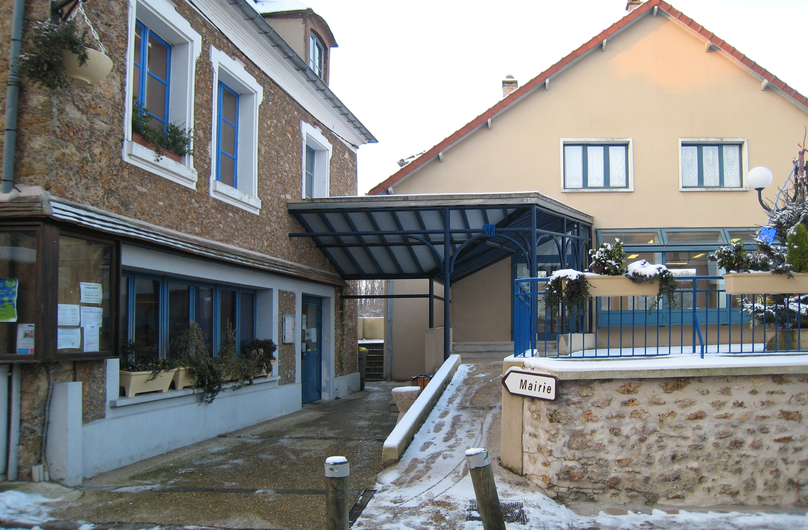 French town Gometz le Châtel, photo of town hall.